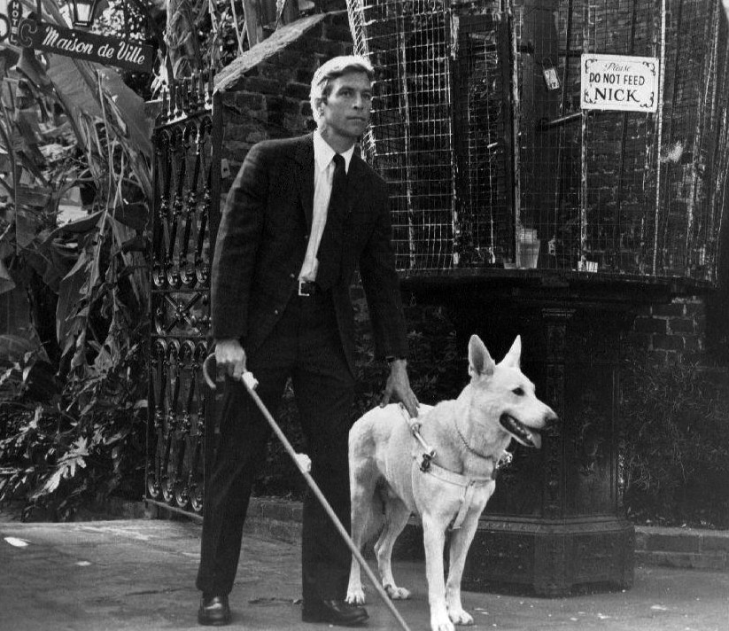 Publicity photo of James Franciscus from Longstreet.